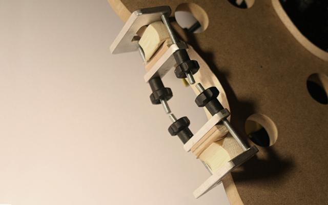 Gluing the C-bouts to the blocks.